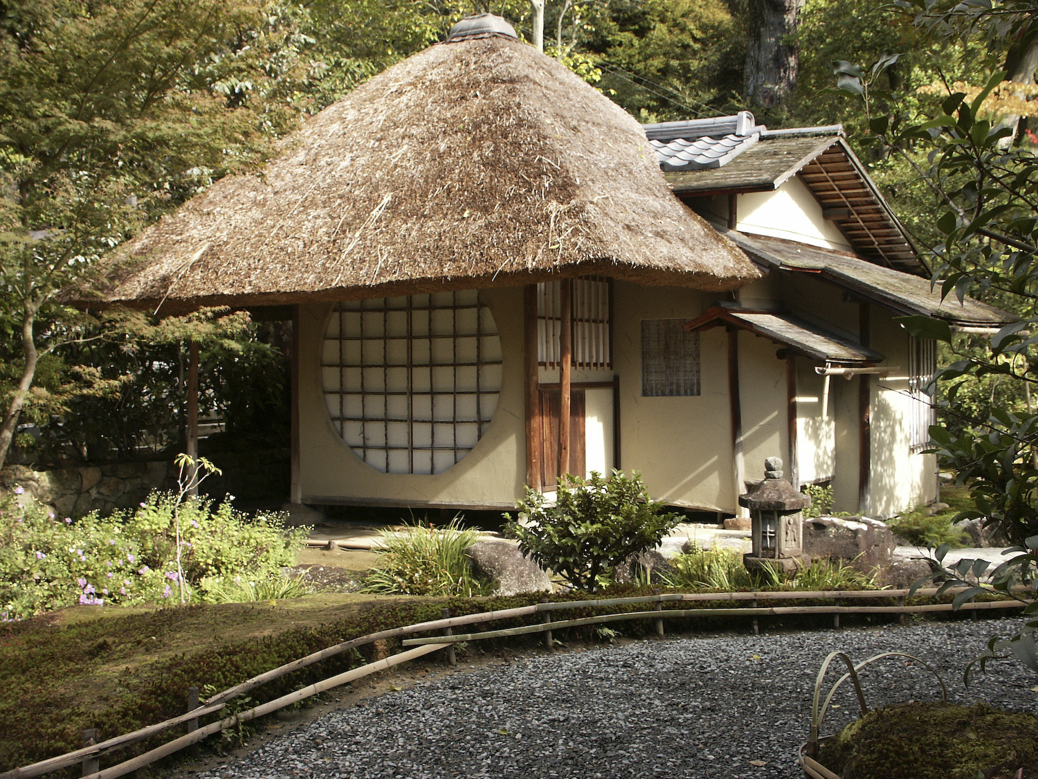 Description=This photograph shows the Ihōan, a teahouse at Kōdai-ji in Kyoto, Japan. I took the photo and contribute my rights in the file to the public domain; individuals and organizations retain rights to images in it. See also Image:Kodaiji Teahouse Dimage 0159.jpg. 京都にある高台寺の茶室「遺芳庵」